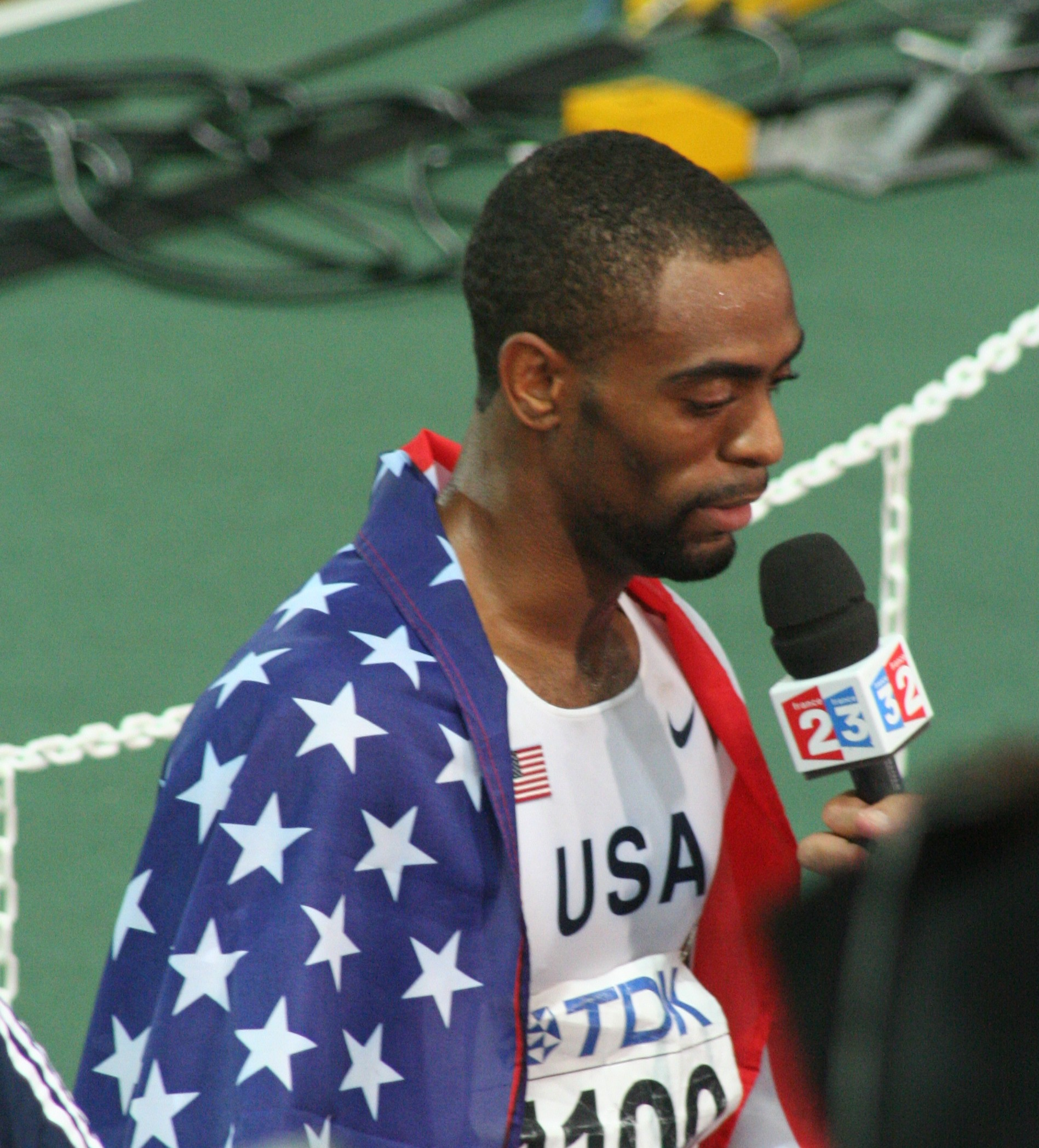 World Athletics Championships 2007 in Osaka - Double champion Tyson Gay is interviewed after his 200 metres victory